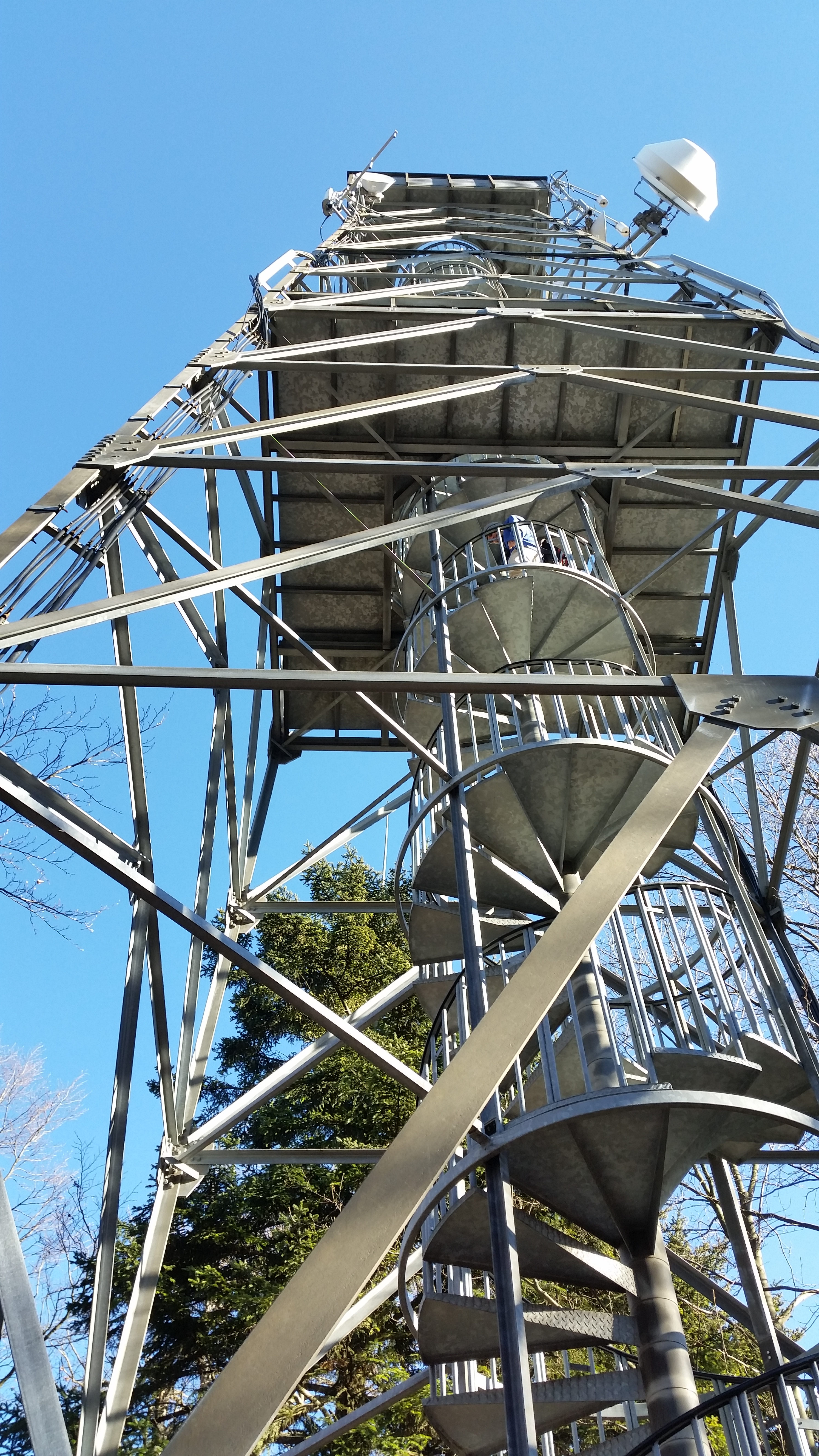 Stolpnik Observation Tower, Konjiška gora, Slovenia